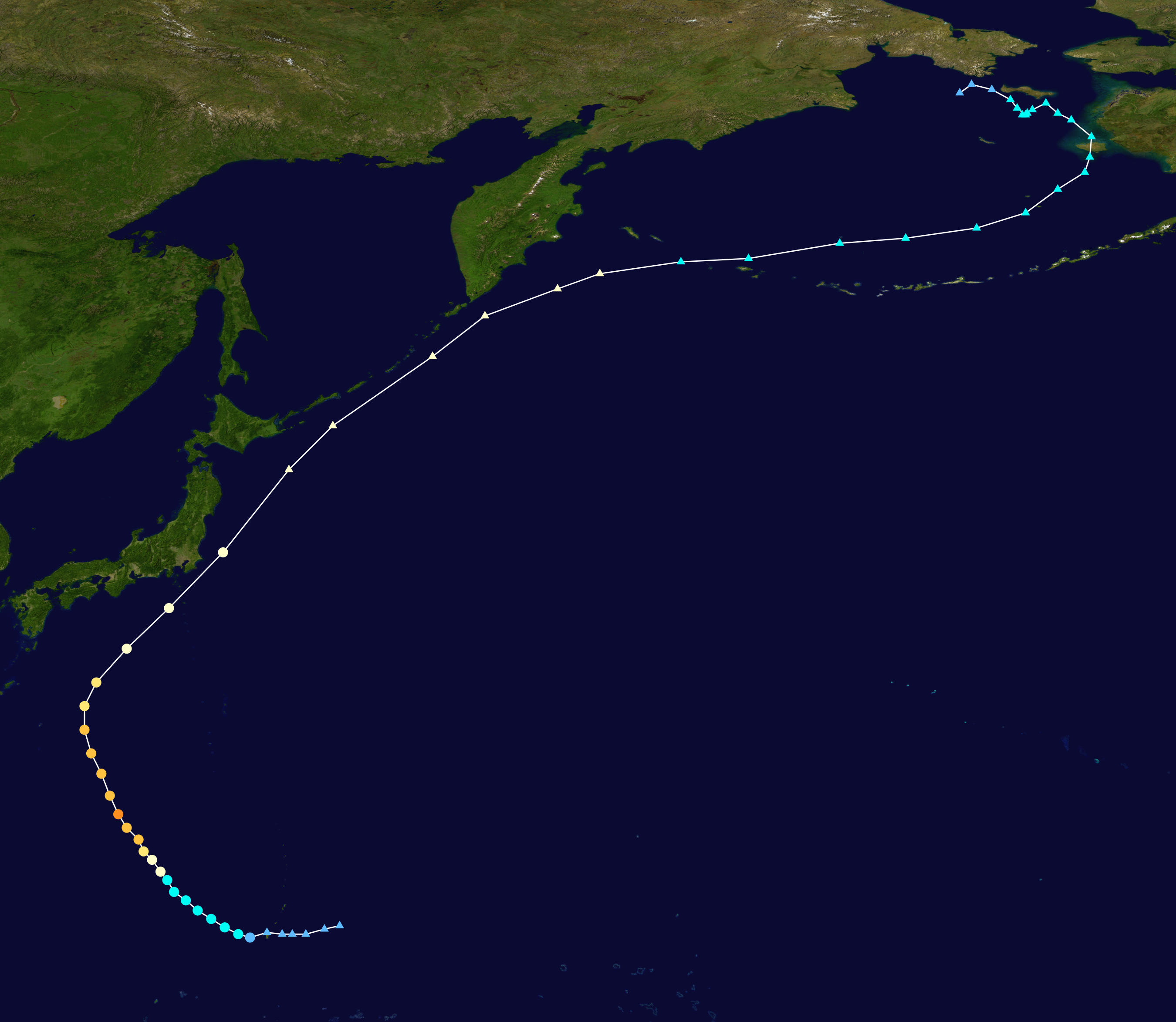 Track map of Typhoon Wipha of the 2013 Pacific typhoon season. The points show the location of the storm at 6-hour intervals. The colour represents the storm's maximum sustained wind speeds as classified in the Saffir–Simpson scale (see below), and the shape of the data points represent the nature of the storm, according to the legend below. Saffir–Simpson scale Tropical depression≤38 mph≤62 km/h Category 3111–129 mph178–208 km/h Tropical storm39–73 mph63–118 km/h Category 4130–156 mph209–251 km/h Category 174–95 mph119–153 km/h Category 5≥157 mph≥252 km/h Category 296–110 mph154–177 km/h Unknown Storm type Tropical cyclone Subtropical cyclone Extratropical cyclone / Remnant low / Tropical disturbance / Monsoon depression